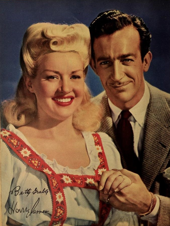 Betty Grable and Harry James 1944